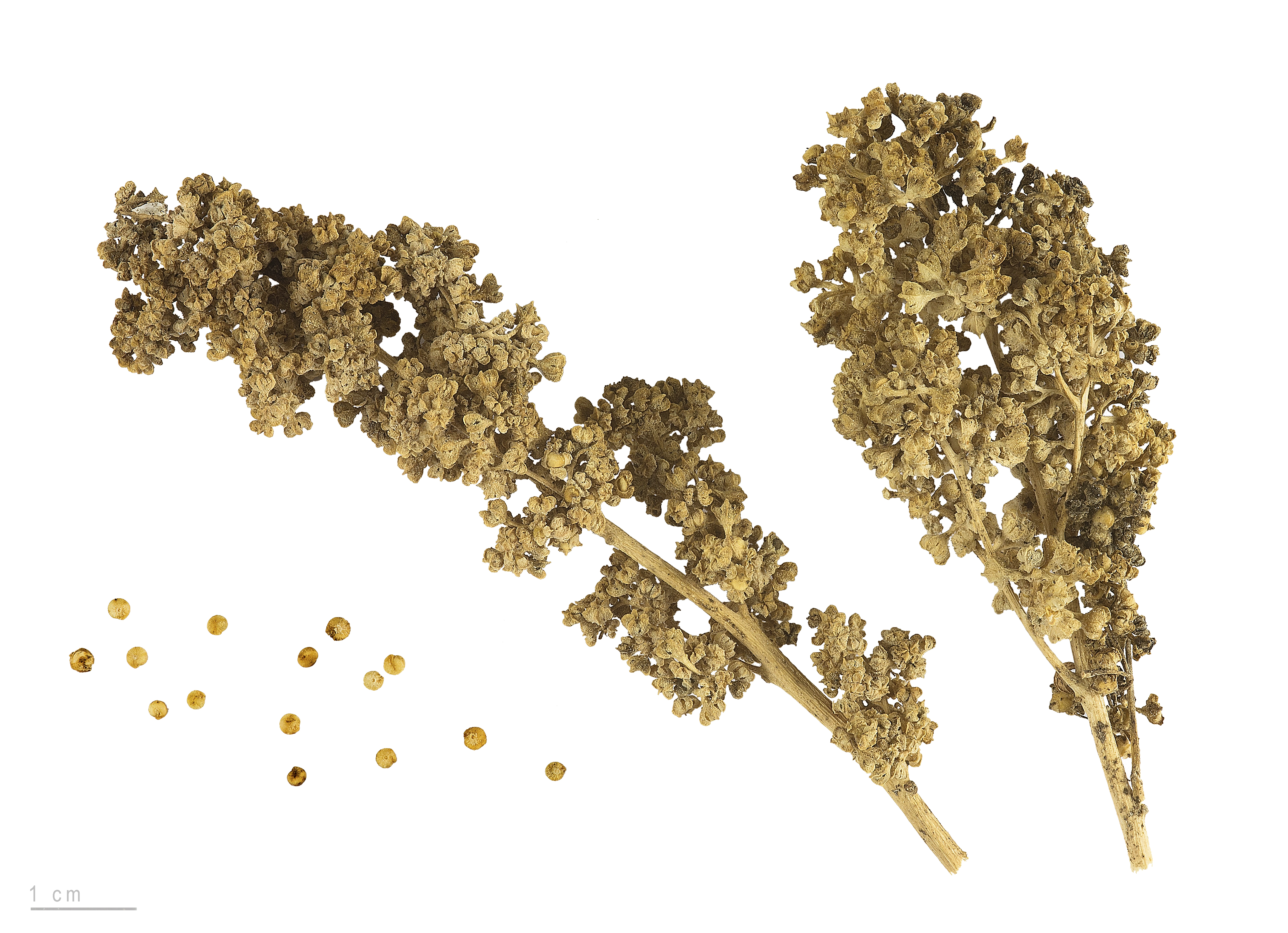 Quinoa "red faro" , fruits and seeds